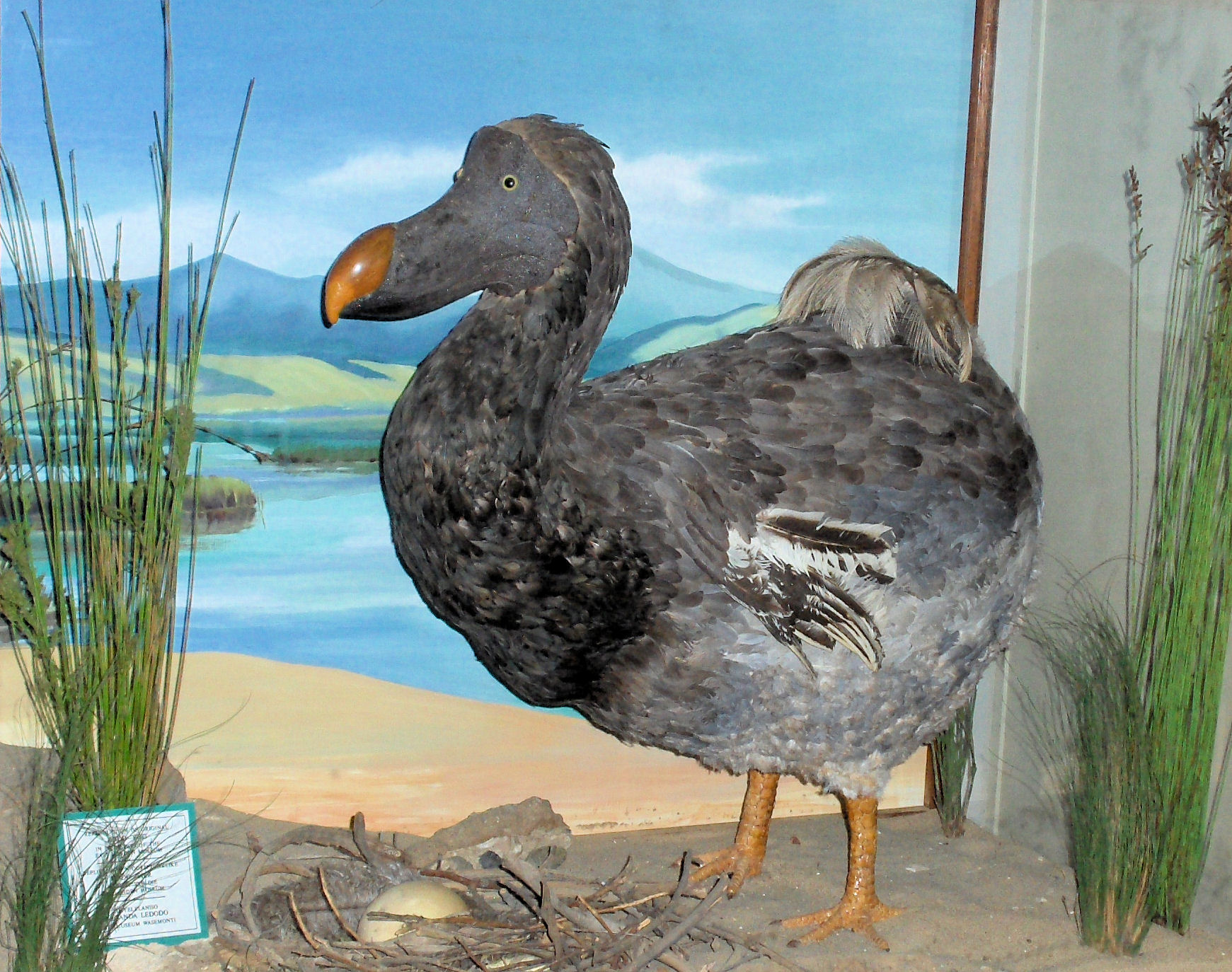 Didie (Raphus cucullatus) with replica egg (real egg is in storage at the museum), Raphidae - extinct bird. East London Museum, South Africa.